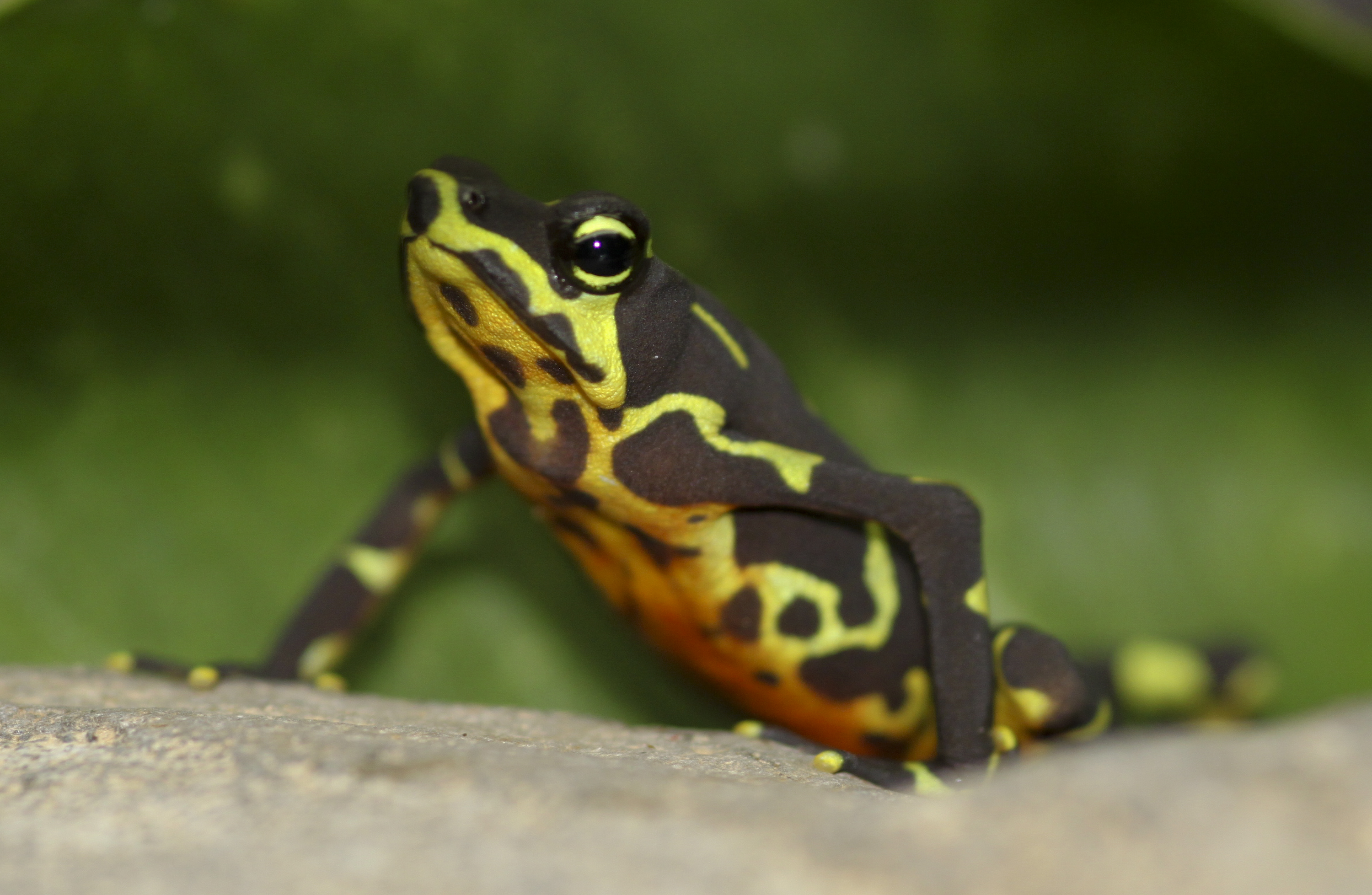 Atelopus limosus female, highland color form, Panama